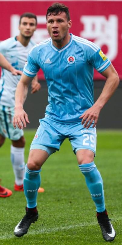 04.02.18. Турция, Анталья, стадион «Мардан». Вторые зимние «Газпром» — тренировочные сборы: товарищеский матч «Зенит» — «Слован».Cropped by File:Zen-Slovan (8).jpg